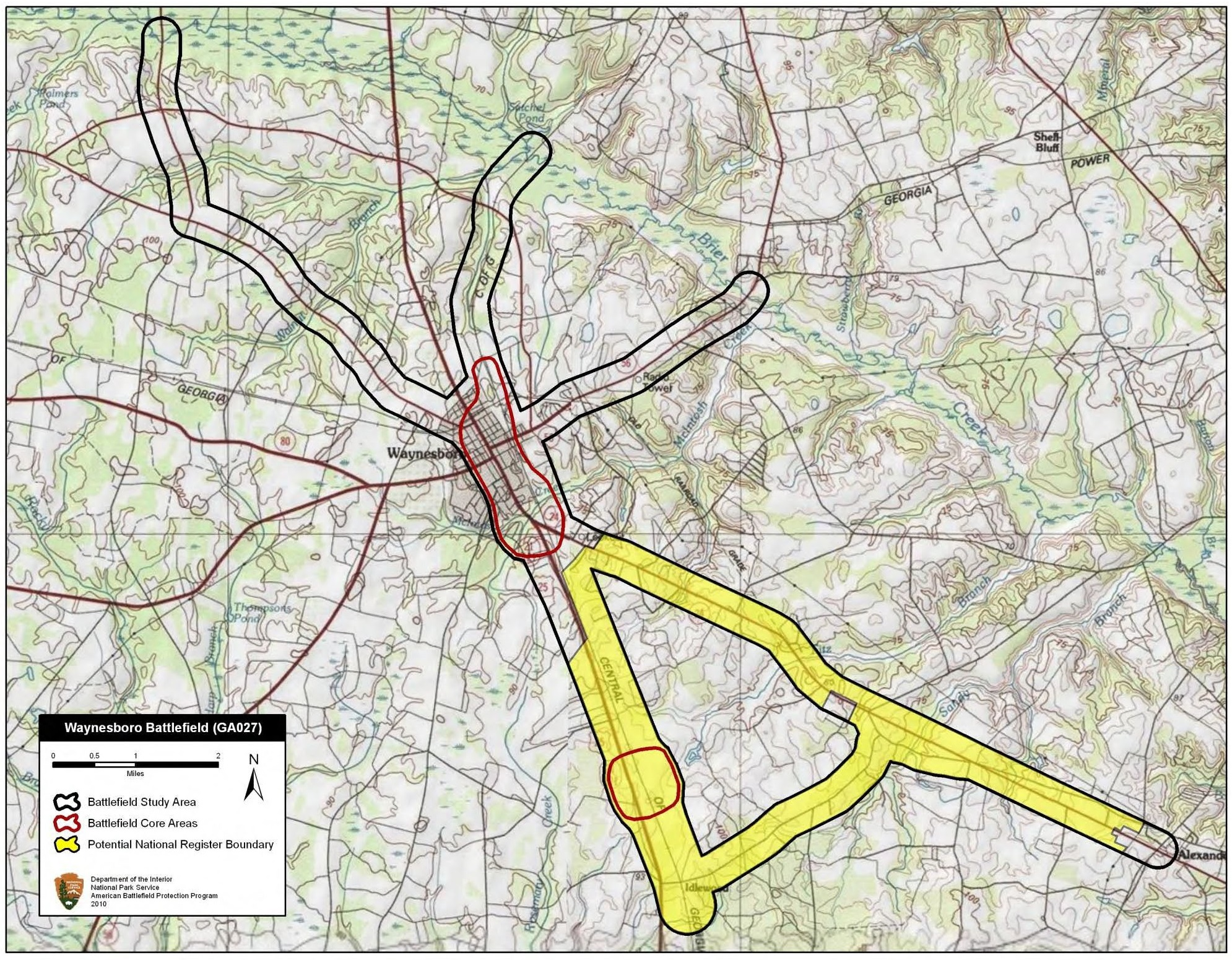 Map of battlefield core and study areas. The ABPP revised the Study Area to take in the Confederate retreat and Federal pursuit to the northwest, and the Federal bridge burning missions to the north and northeast of the town of Waynesborough. The southern Core Area was shrunk to reflect the actual fighting around the Confederate road blocks. The northern Core Area was revised to better reflect the actual areas of fighting in front of and within the town.